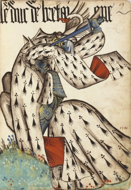 John VI, Duke of Brittany (1389-1442), Grand armorial équestre de la Toison d'or.